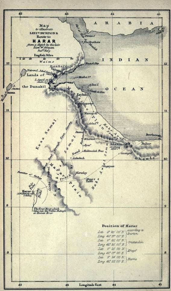 Richard Burton's route to Harar